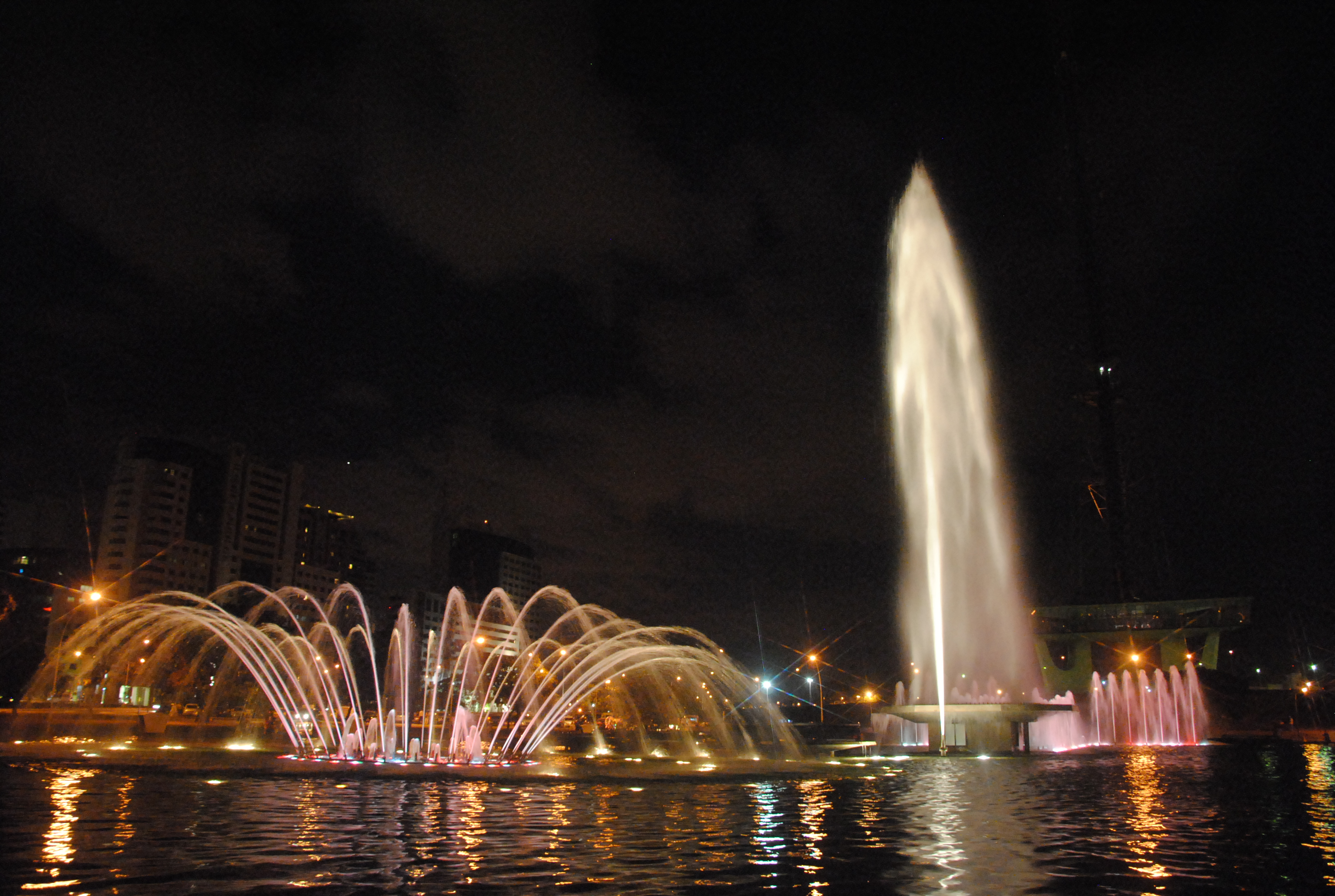 Illuminated fountain in Brasília, the capital of Brazil.